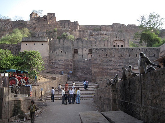 this the new main entarance gate in the ranthambor fort and its name is naulakha gate.